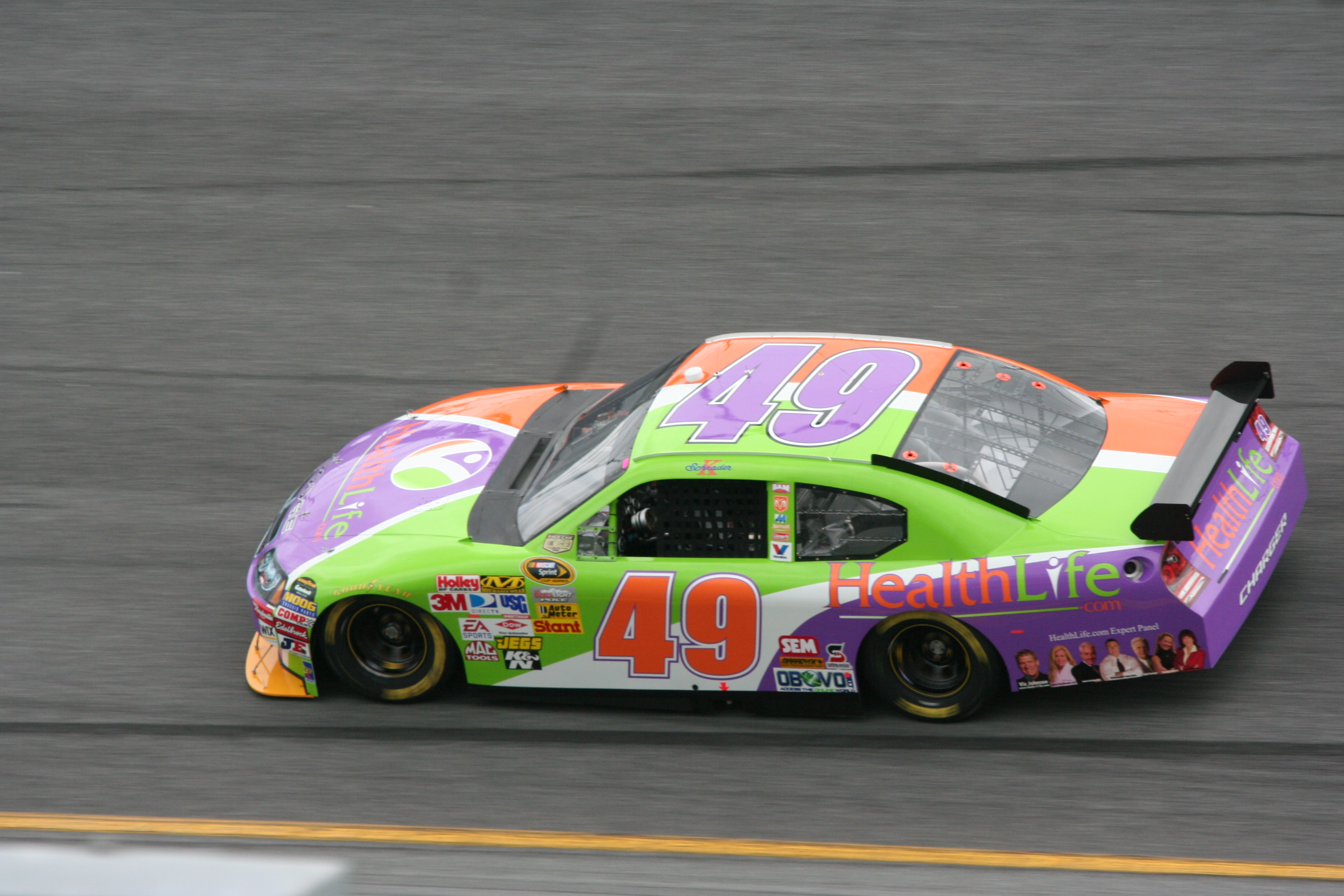 Shot by The Daredevil at Daytona during Speedweeks 2008